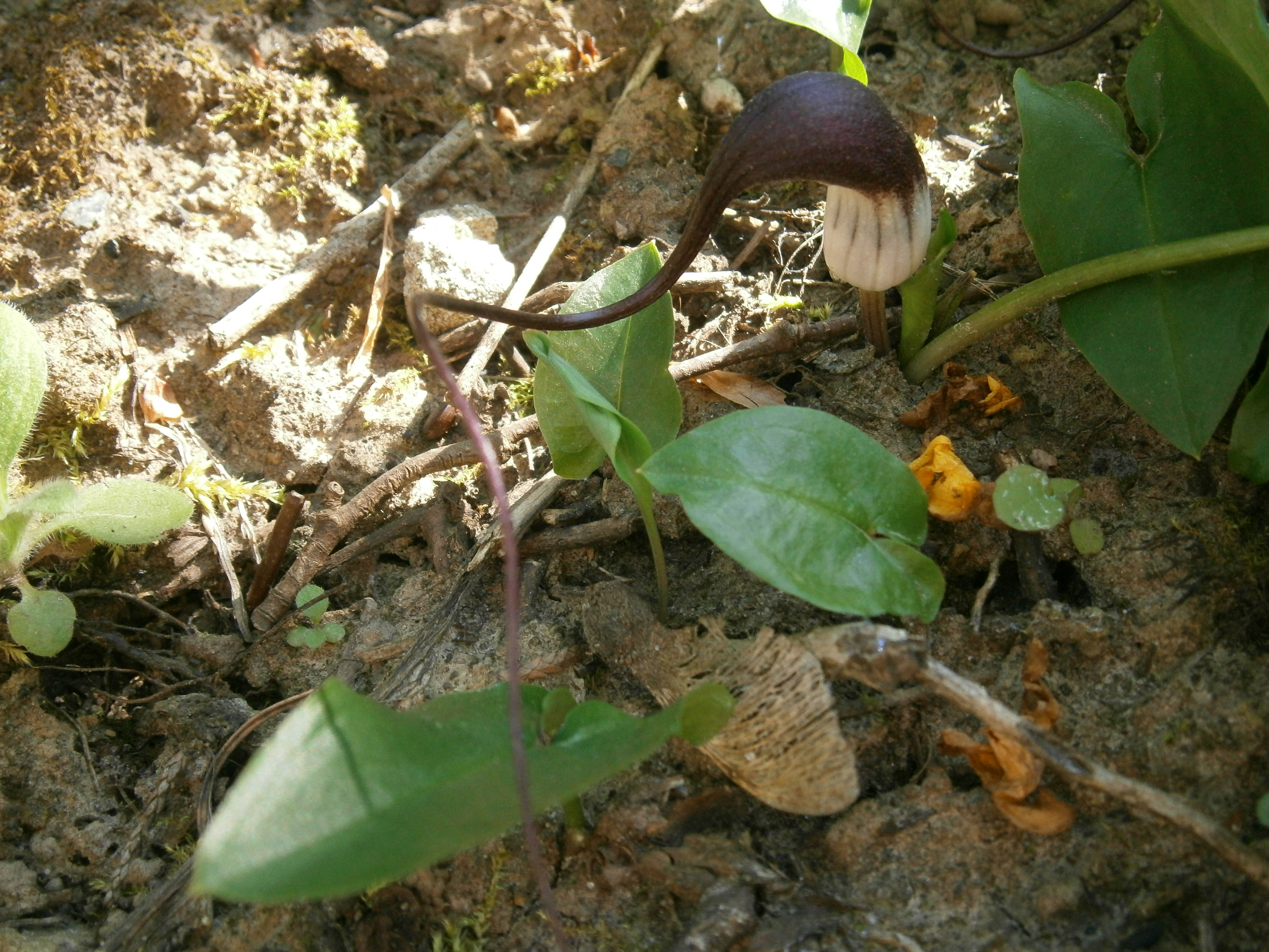 Arisarum proboscideum